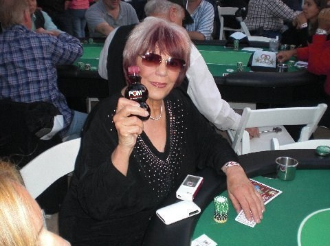 Barbara Enright, poker player, taken Oct. 3, 2009 during Monte Carlo Night, an annual charity poker tournament held at the Northridge, California estate of Nancy Cartwright, the cartoon voice of Bart Simpson.